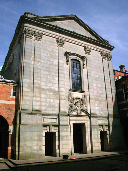 The Birmingham Oratory front.